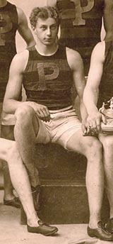 Alvin Kraenzlein, Athlet and four times winner at the 1900 Olympic Games photography, adapted reproduction, no restrictions on use